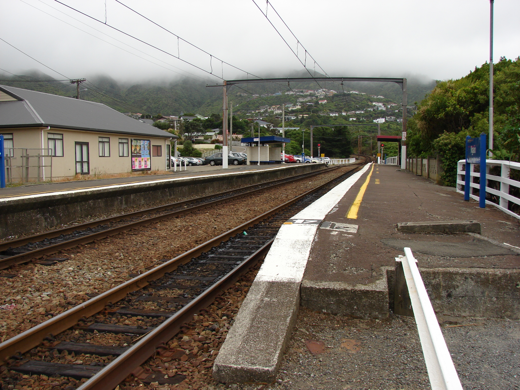 Ngaio railway station, looking north in the direction of Awarua Street station. Photographed by Matthew25187 on 2007-12-17.